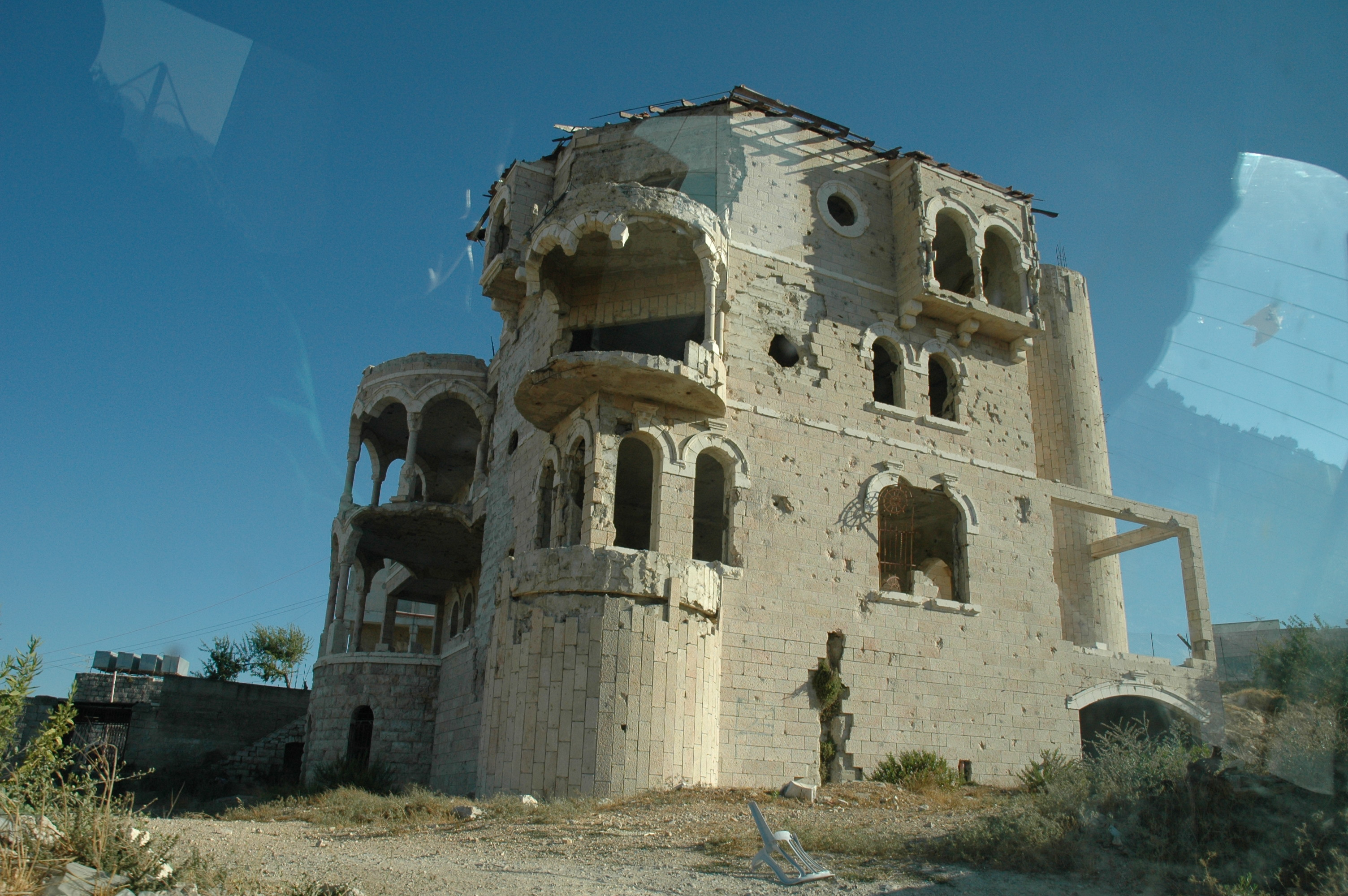 Beit Jalla - Shelled building in Palestinian Authority territories